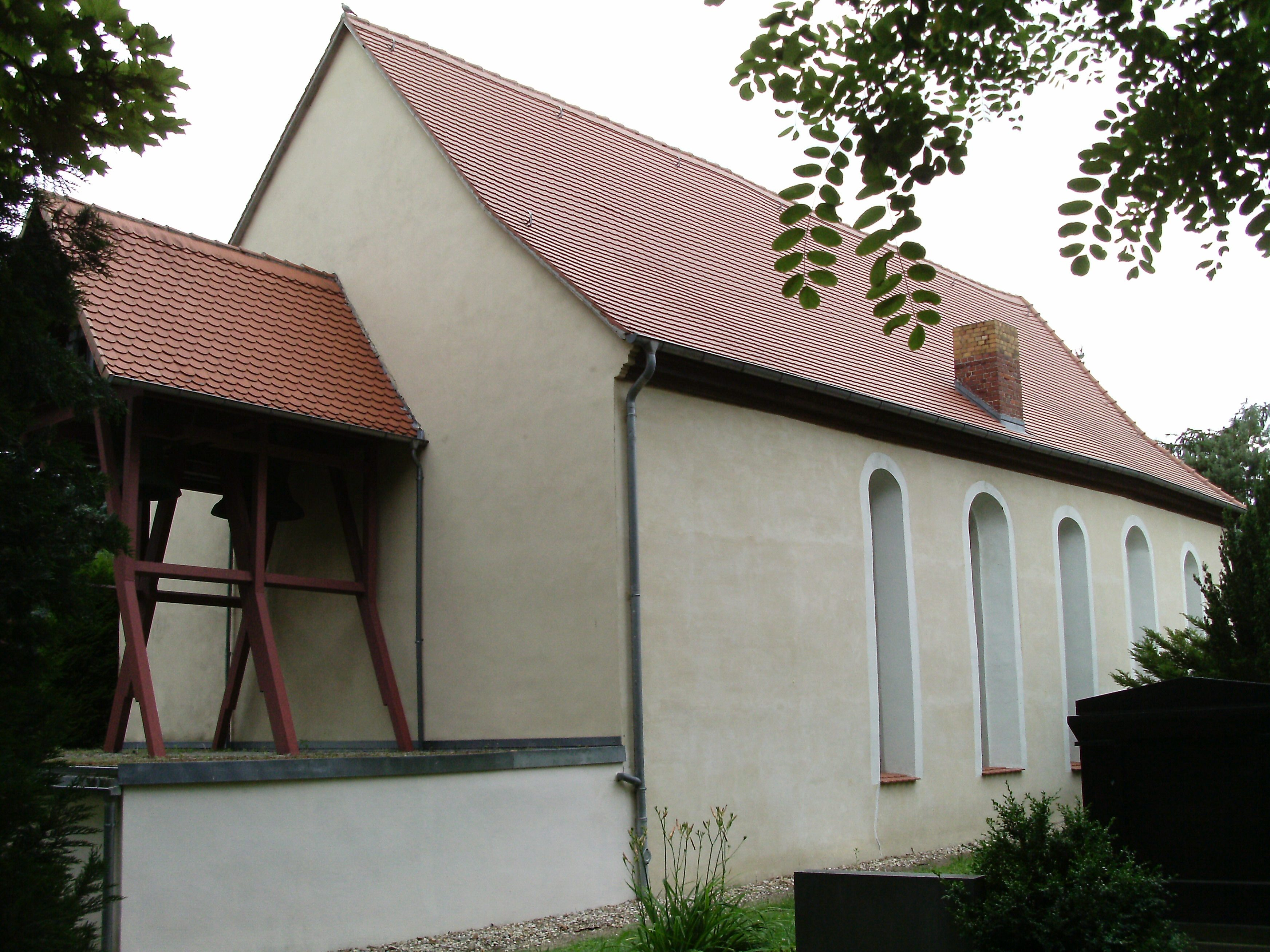 Sietzsch church (Landsberg/Saalekreis, district of Saalekreis, Saxony-Anhalt)